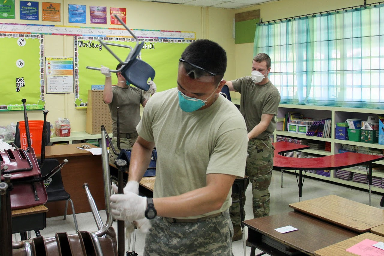 Members of the Nebraska Army National Guard’s 67th Maneuver Enhancement Brigade continue to lend a hand to the hurricane-ravaged U.S. Virgin Islands as a part of the Hurricane Irma and Hurricane Maria relief and recover efforts. That support took them to the St. Croix Ricardo Richards Elementary School where members of Joint Task Force Pike helped clean up the school in preparation for the grand opening as part of the hurricane cleanup efforts. (Nebraska National Guard photos by Maj. Carlos Van Nurden)